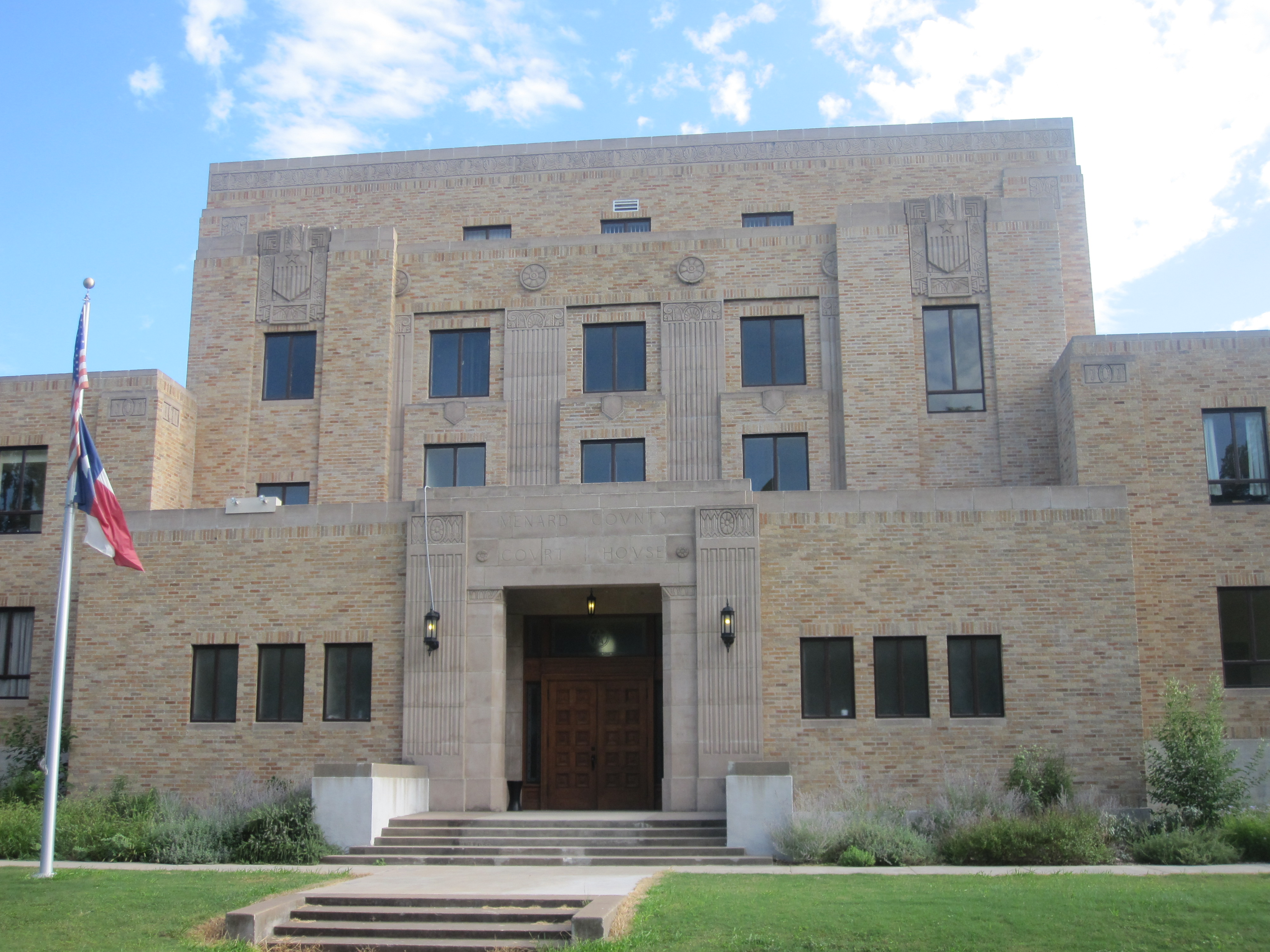 I took photo with Canon camera in Menard, TX.